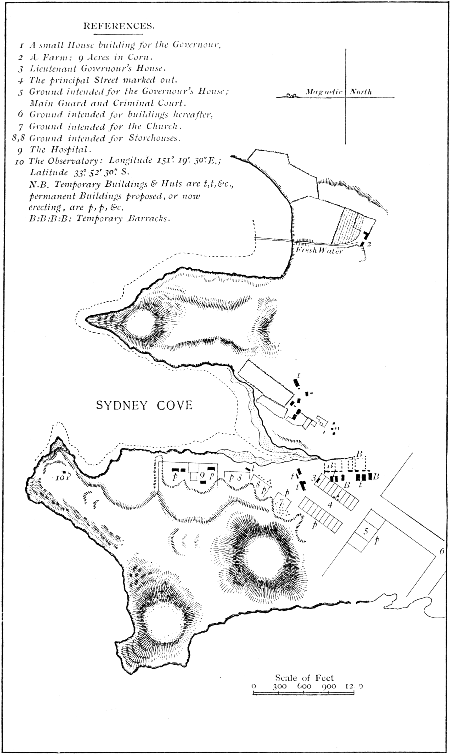 Sketch of Sydney Cove, Port Jackson, 1788, from the book "Admiral Phillip"